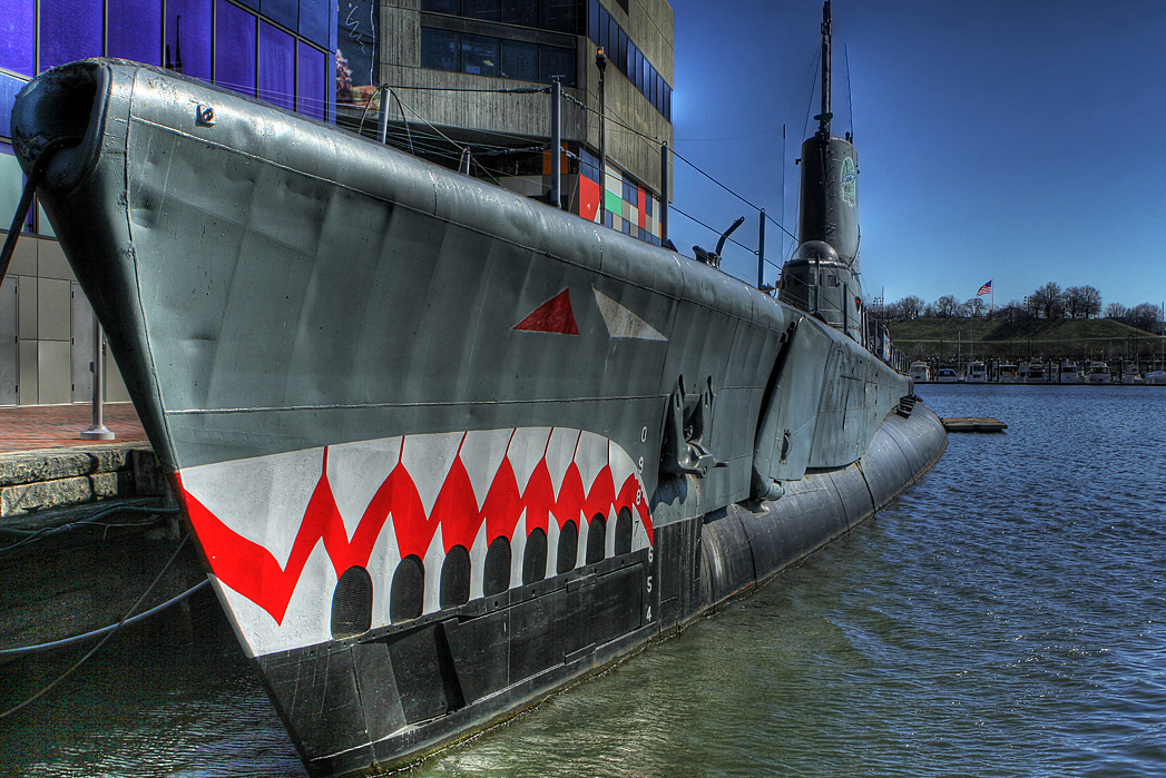 The USS Torsk (SS-423) is docked at the Baltimore Maritime Museum and is one of several Tench Class submarines still located inside the United States. Nicknamed the "Galloping Ghost of the Japanese Coast"; the vessel is the only ship of the United States Navy to be named for a food fish of the North Atlantic.